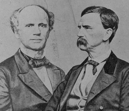 Portion of the original image. Photograph of drawing shows Horatio Seymour and Francis Preston Blair, 1868 Democratic presidential and vice presidential candidates, half-length portrait, Seymour facing front, Blair facing left.